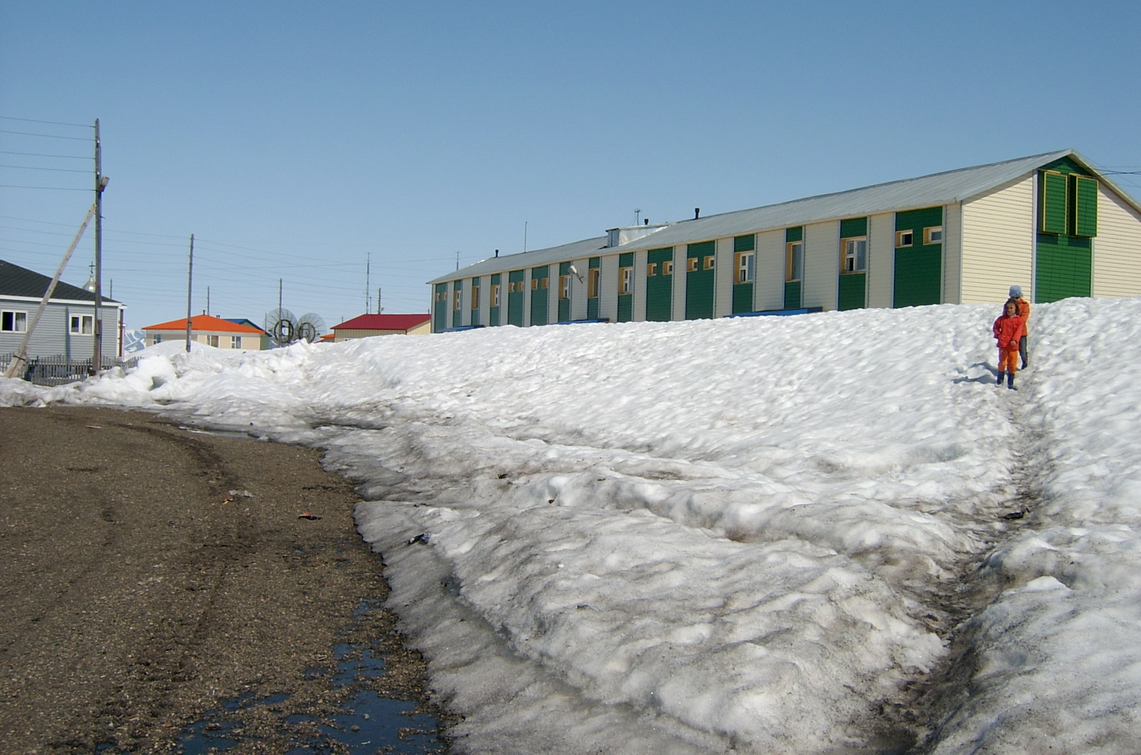 Meinypilgyno village, Chukotka, Russia